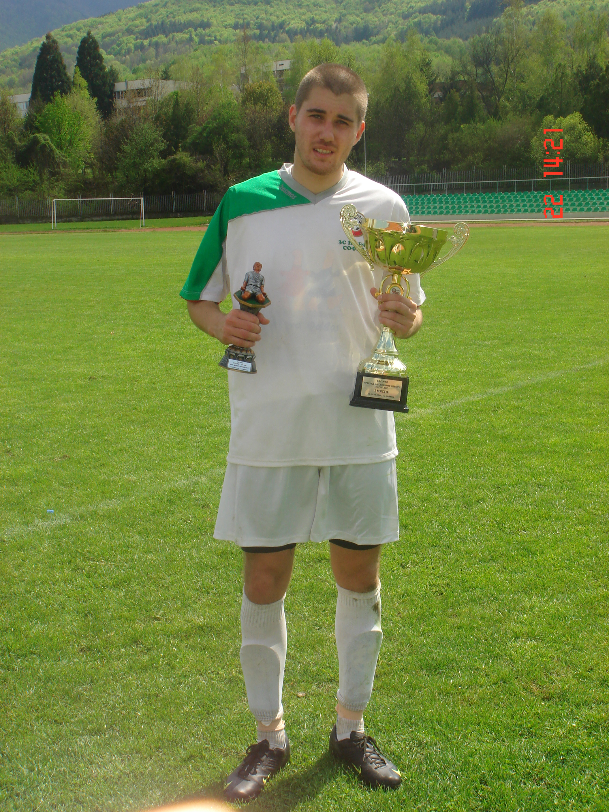 Mark Grigorov - Bulgarian soccer player